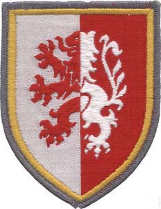 coat of arms Panzerbrigade 6 (PzBrig 6) of the Bundeswehr (Armed Forces of the Federal Republic of Germany). → Remarks on naming and categorization scheme